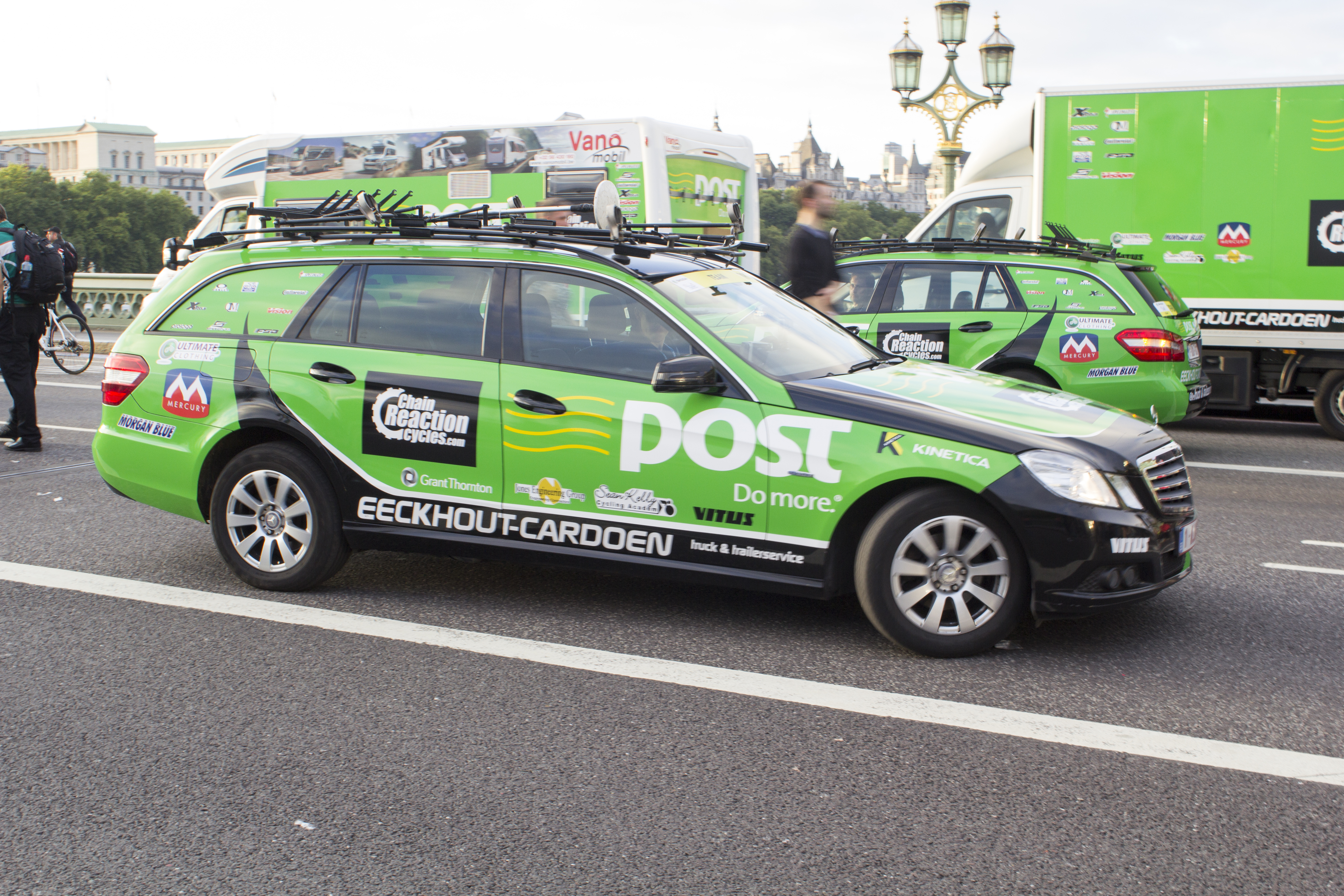 AN Post Chain Reaction support vehicle.